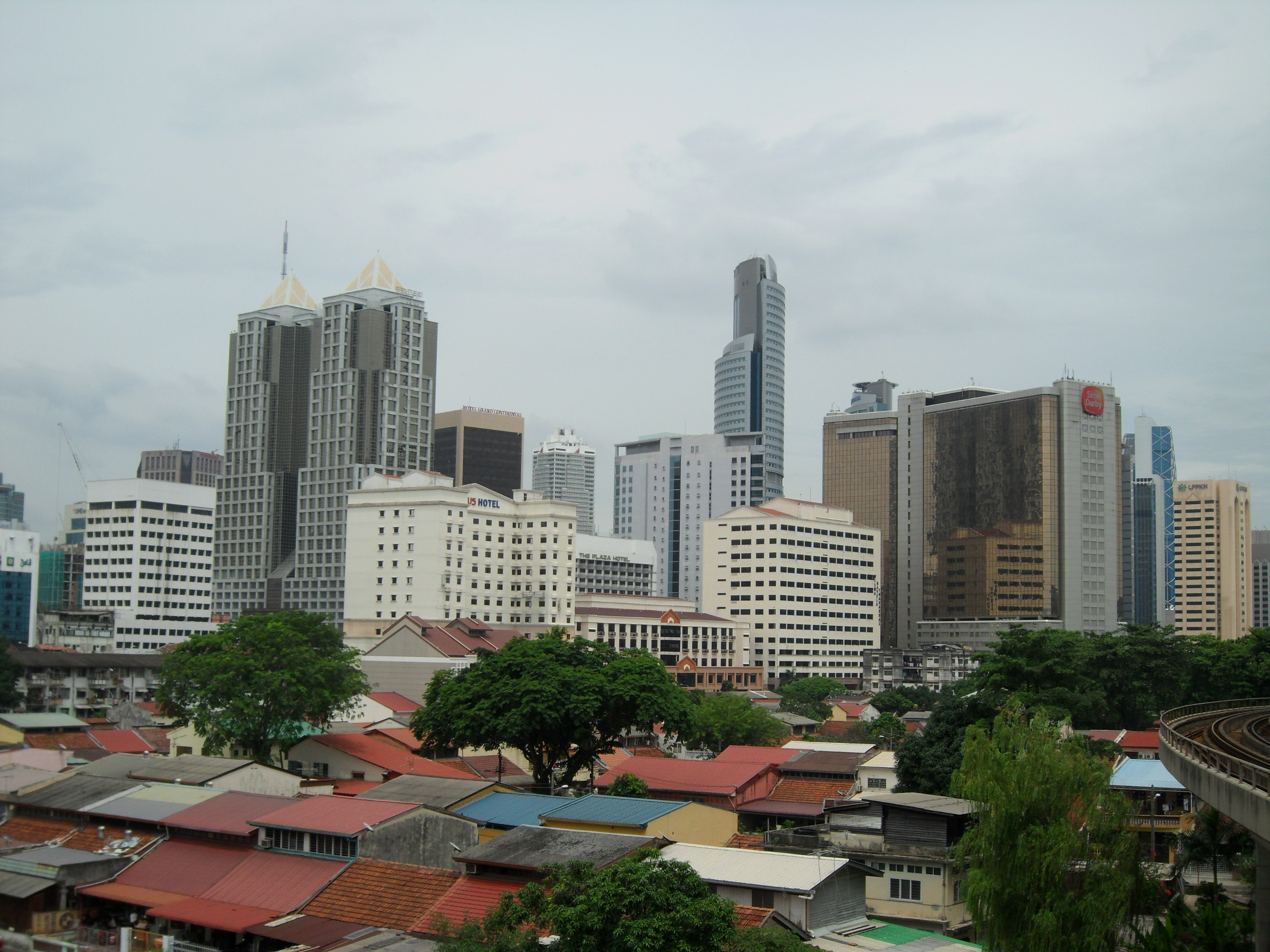 Chow Kit District (Dis 26/40), Kuala Lumpur. Taken from PWTC LRT station, 2 Aug 2013.